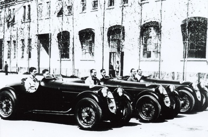 Three Alfa Romeo 8C 2900 at 1936 Mille Miglia where they on May 3 took top three places:[1] Winner: #75 Antonio Brivio and Carlo Ongero (in s/n 412004) Second: #Farina/Meazza. Third: Carlo Maria Pintacuda and Aldo Stefani.